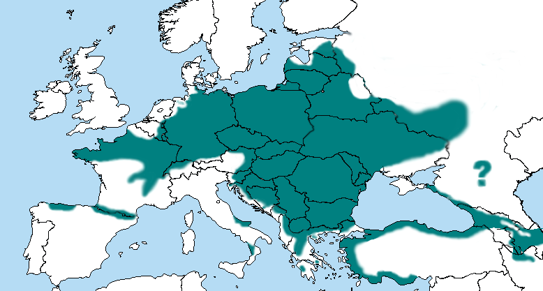 Distribution Map of Middle Spotted Woodpecker (Dendrocopos medius)